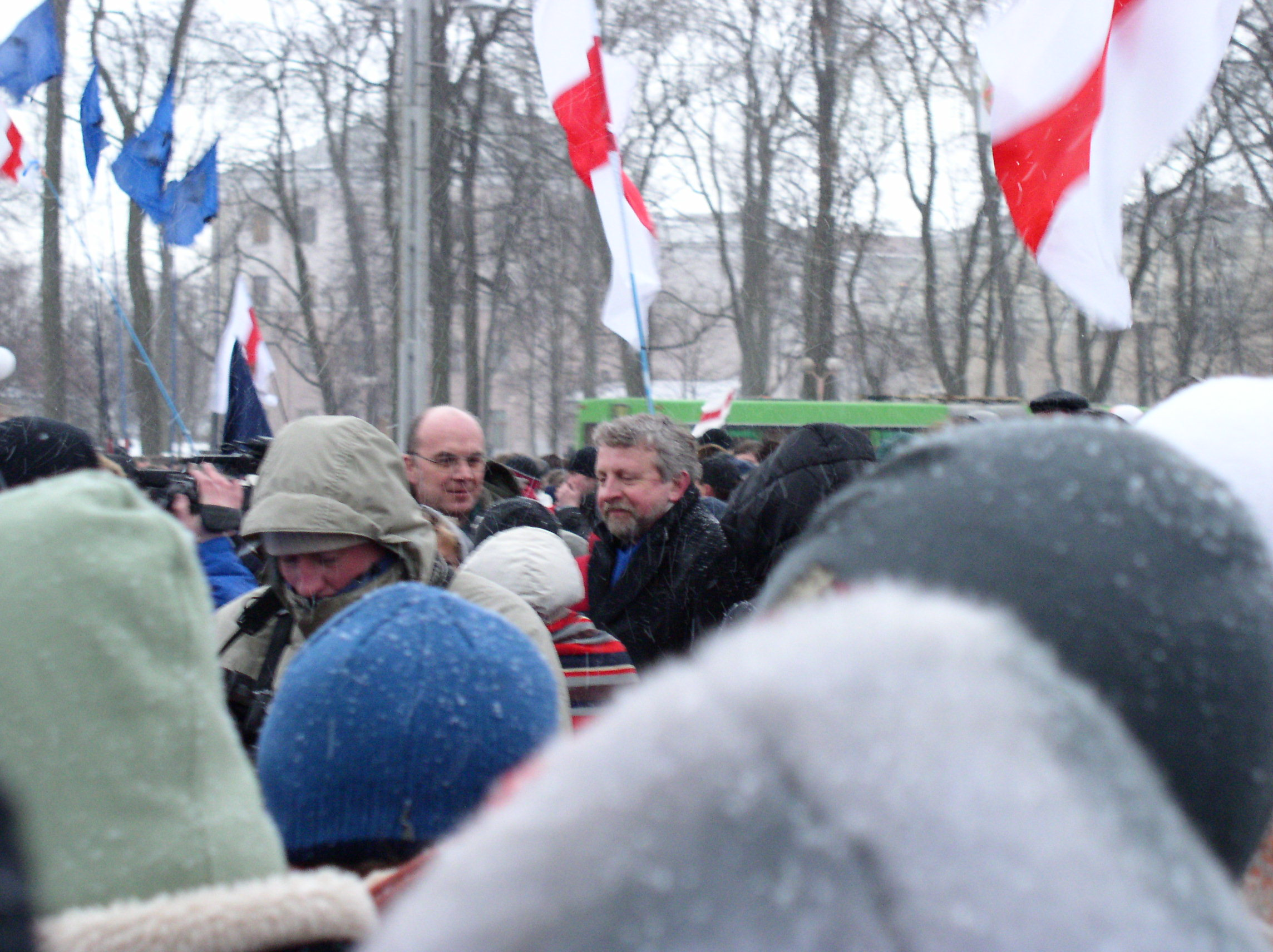 Opposition "Tent town". Minsk, Belarus.